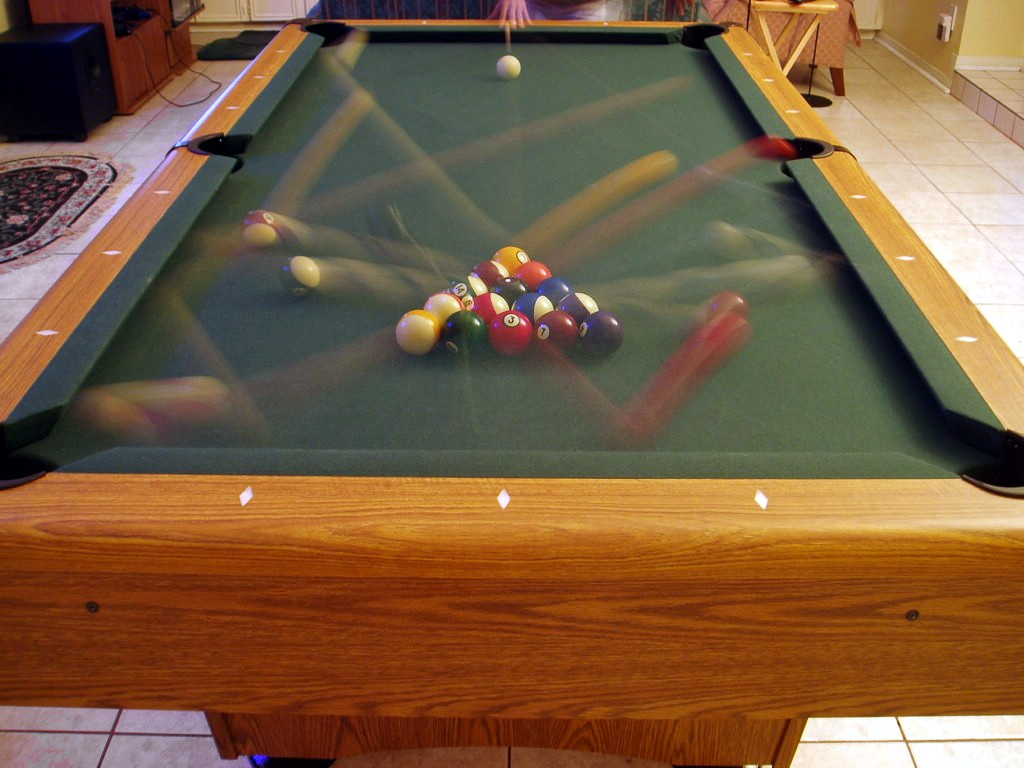 I, Jollytime (Austin) took this picture. I had my mom break on an 8-ball rack and I took the picture with a 4-second exposure. It appears the 5-ball made it into the side pocket.